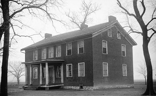 Nicholas Jarrot Mansion, State Route 157, Cahokia (St. Clair County, Illinois)(cropped)